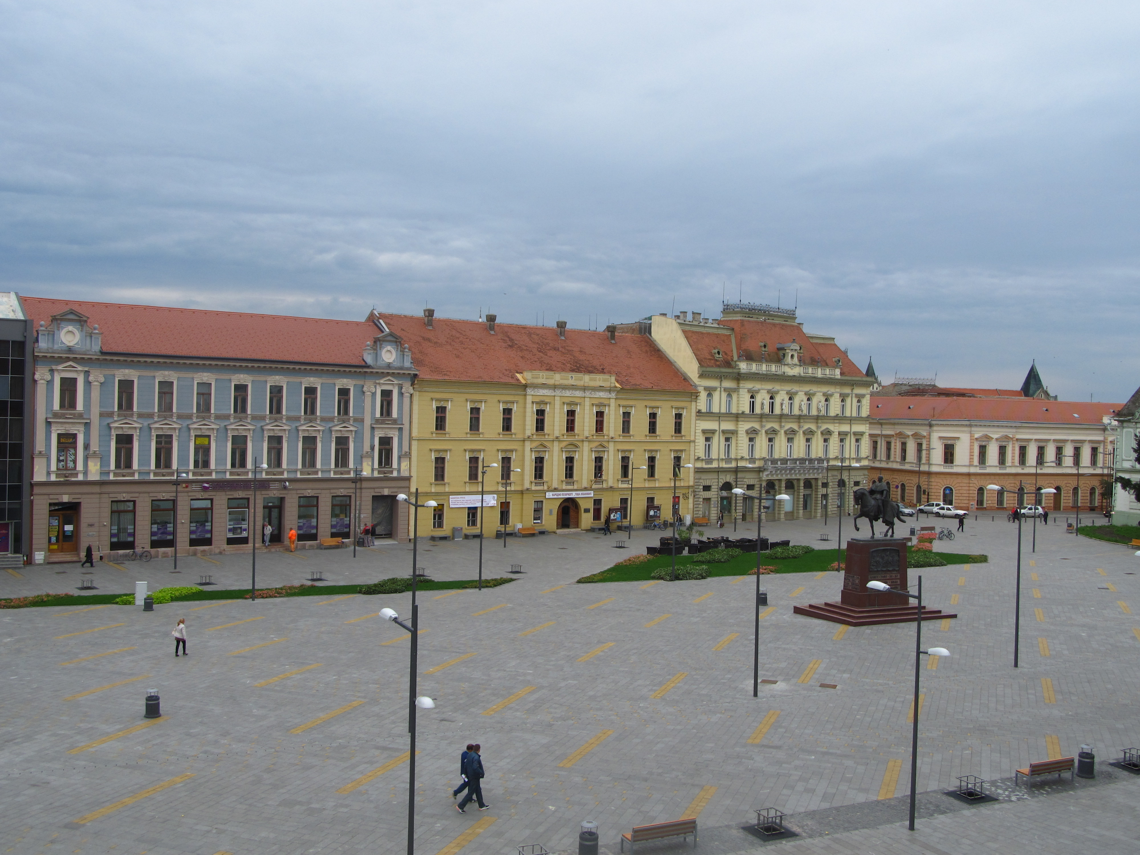 Liberty Square (Trg slobode) in Zrenjanin